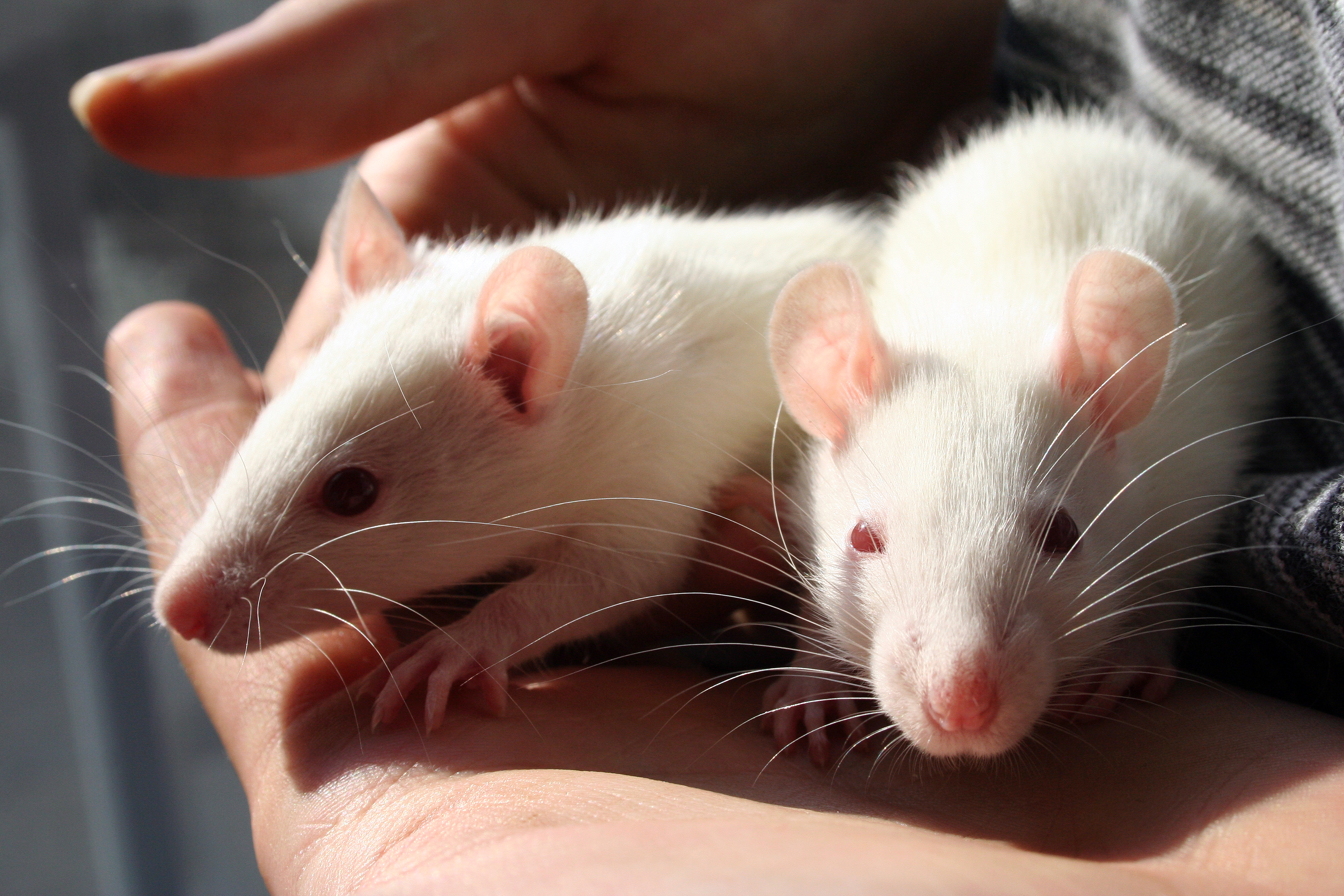 Two young female white rats sit in a person's hand. They were born as lab rats but are now pets. The sisters were born on June 23 and the photo was taken July 19, 2008.